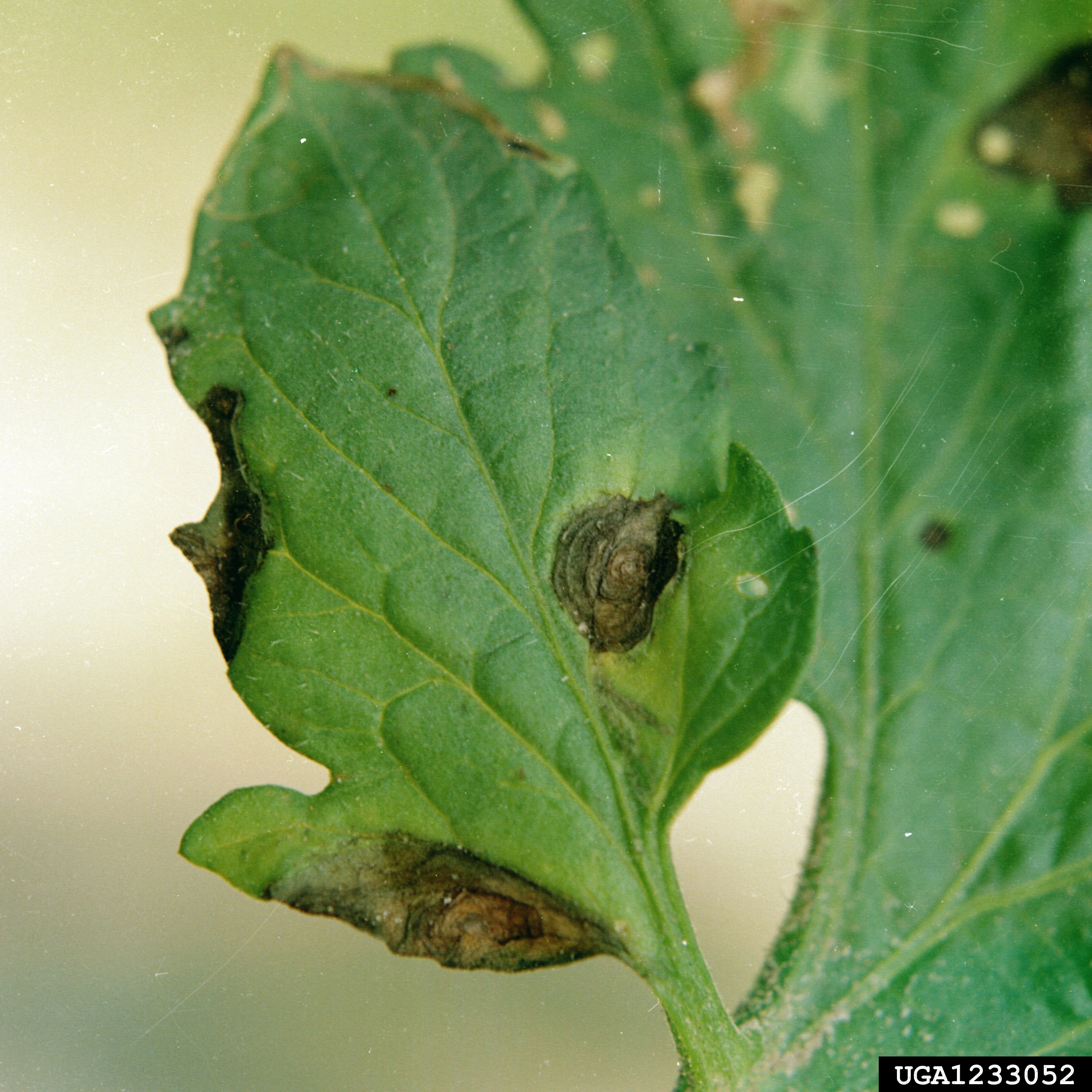 A tomato leaf showing typical target shaped lesions of Alternaria solani